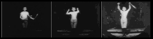 Film stills from Newark Athlete, a short film made in 1891.